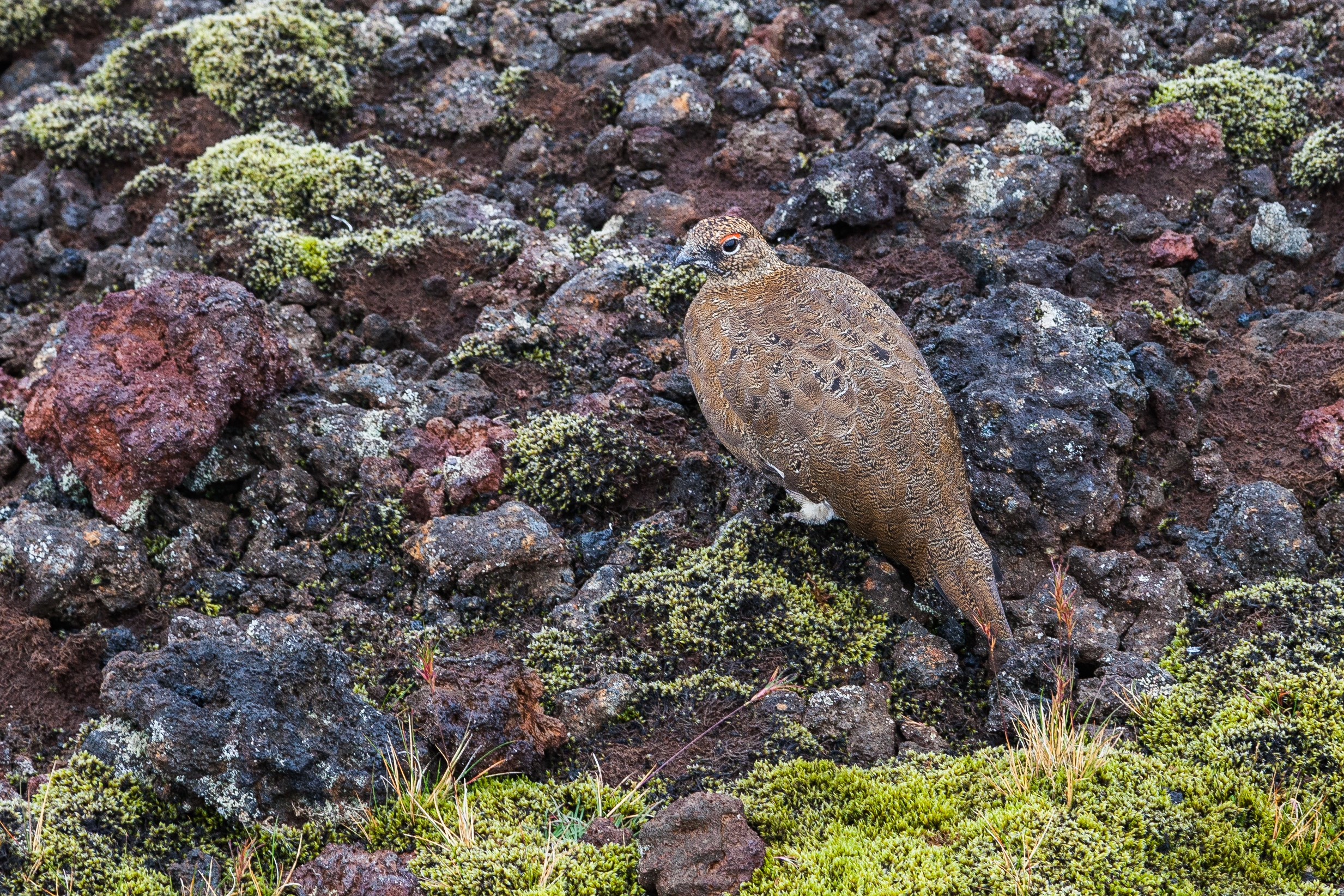 Rock ptarmigan (Lagopus mutus), Grábrók, Vesturland, Iceland